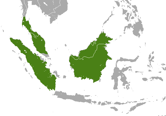 Malayan Weasel (Mustela nudipes) range